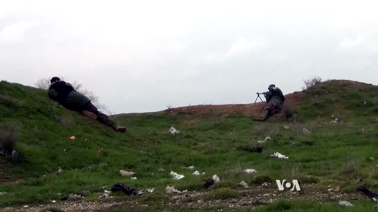 Two Syriac Military Council fighters on the frontlines with the Islamic State near Tell Tamer.